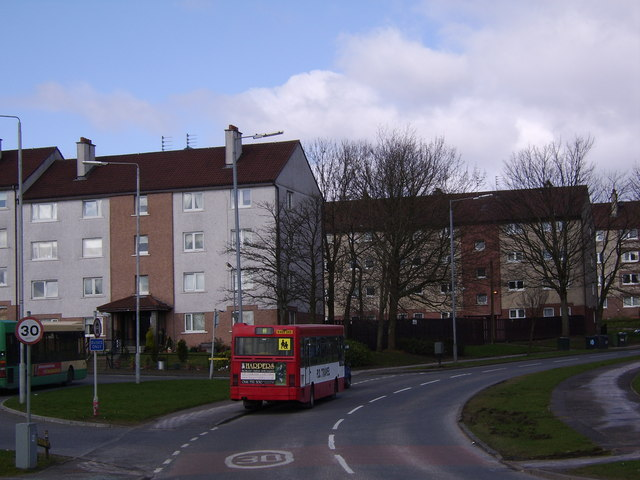 Faifley, the most northern area of Clydebank.